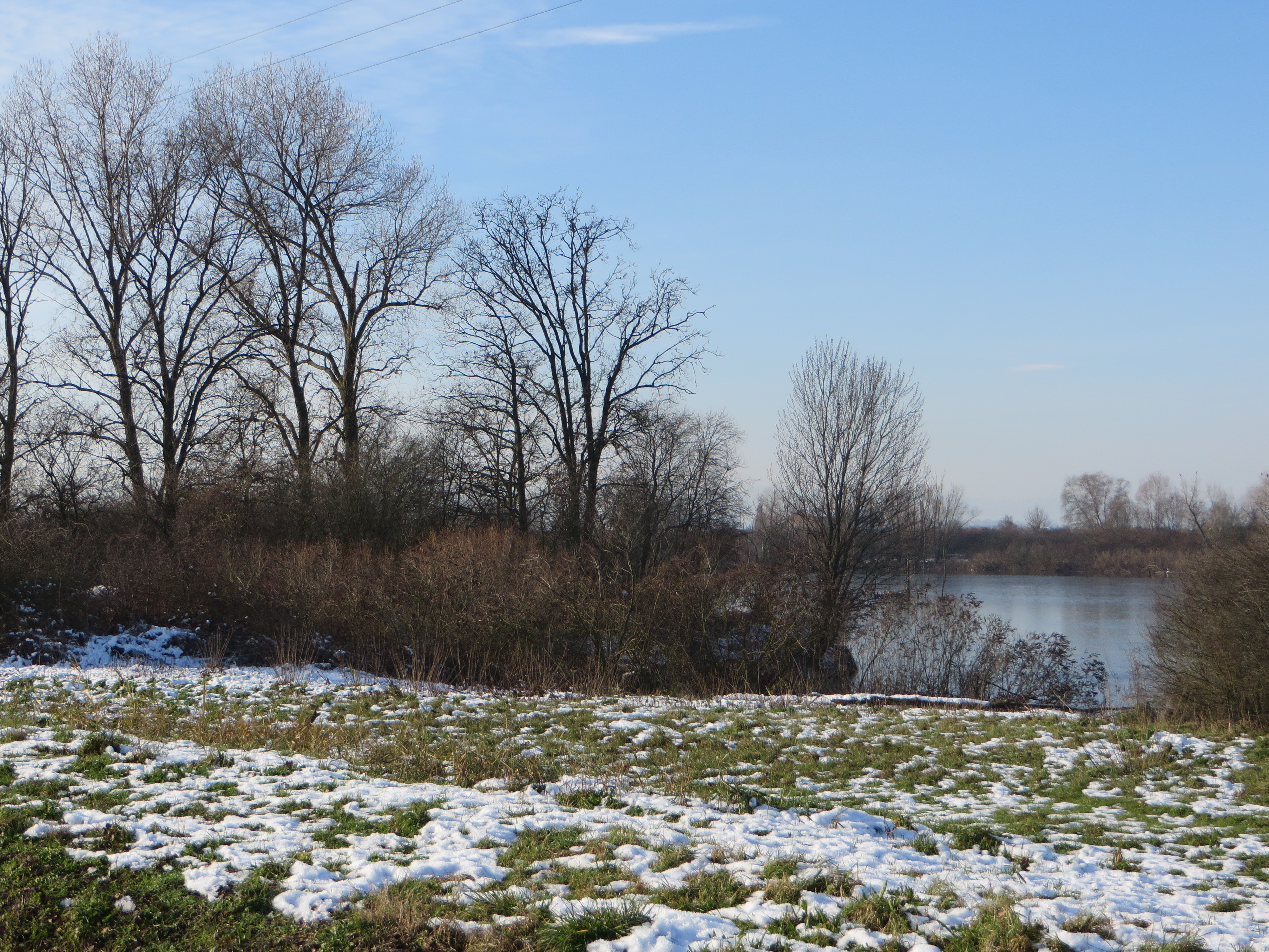 Oasis